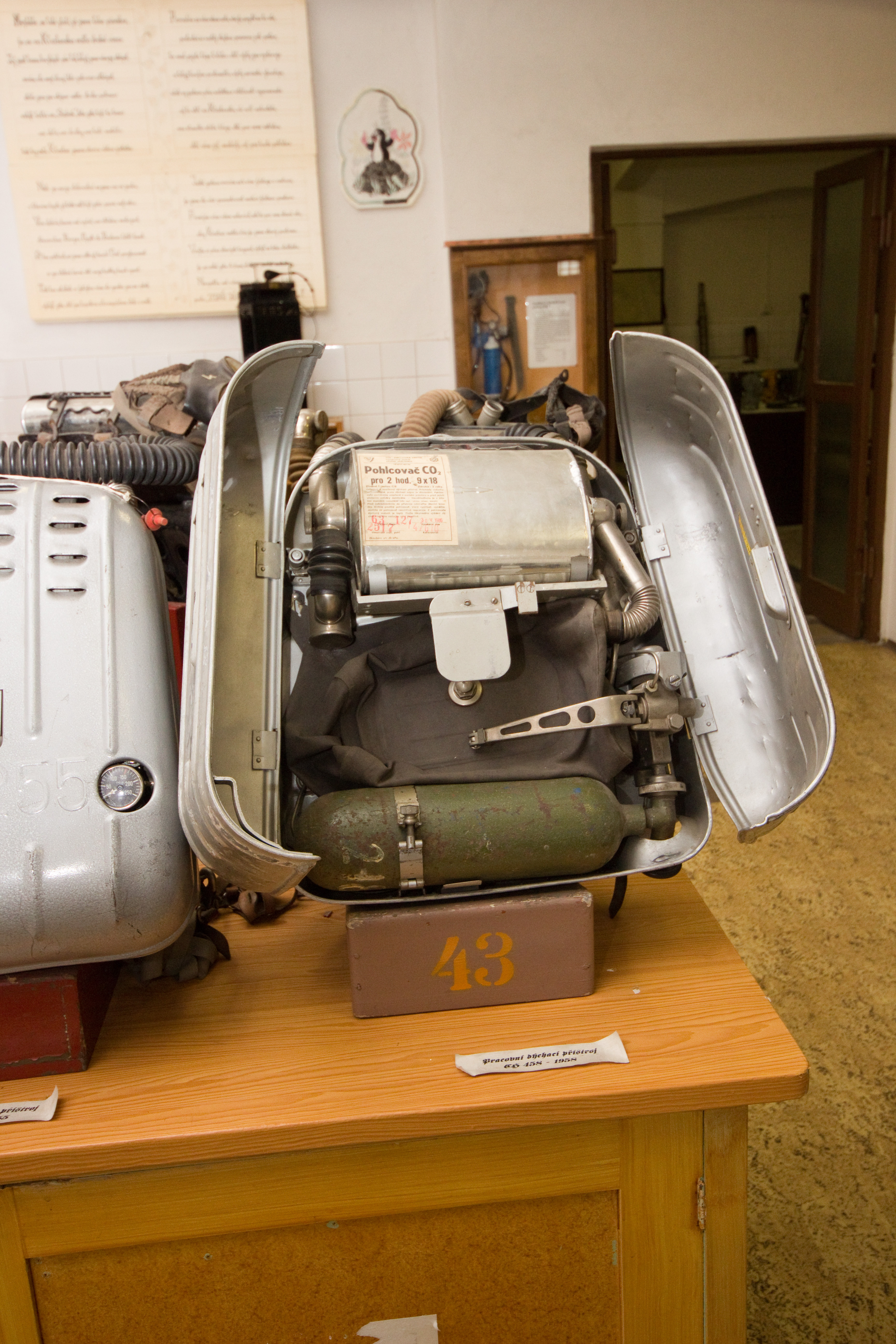 Czechoslovak Chirana Ch 458 SCBA (1958), with casing open. Mining museum Mayrau, Vinařice, Kladno District, Czech Republic